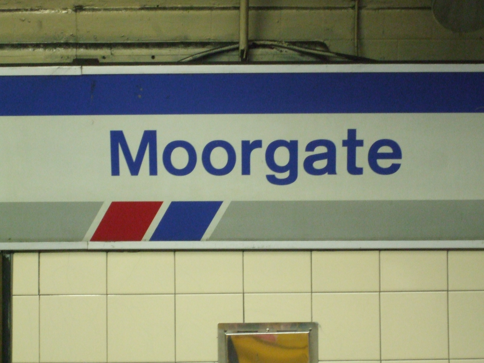 Moorgate station sign on Great Northern (now First Capital Connect) northbound platform. Note old Network Southeast style.